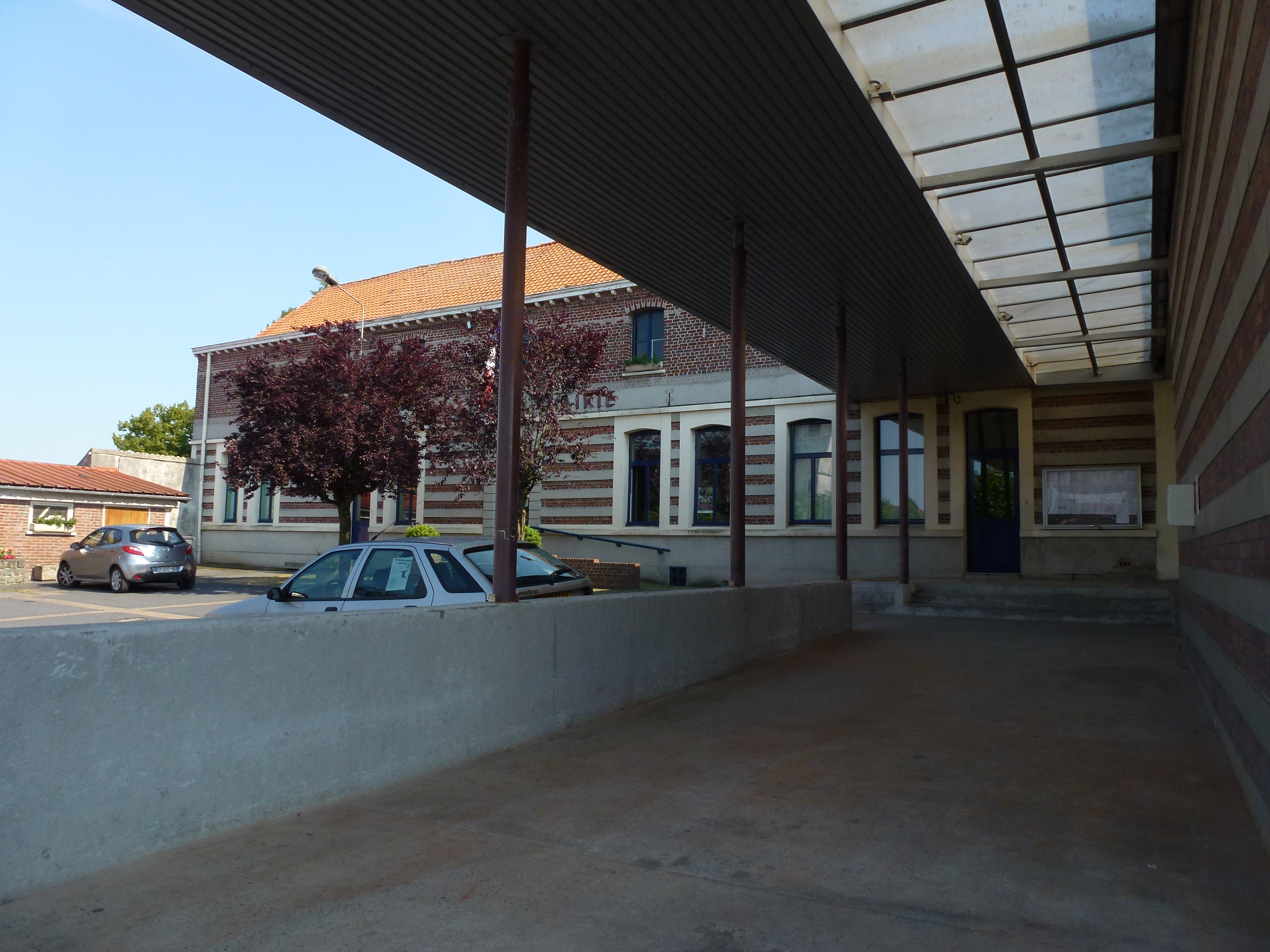 Aubry-du-Hainaut (Nord, Fr) mairie